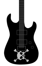 Picture of body of Showmaster HH Skull & Crossbones guitar